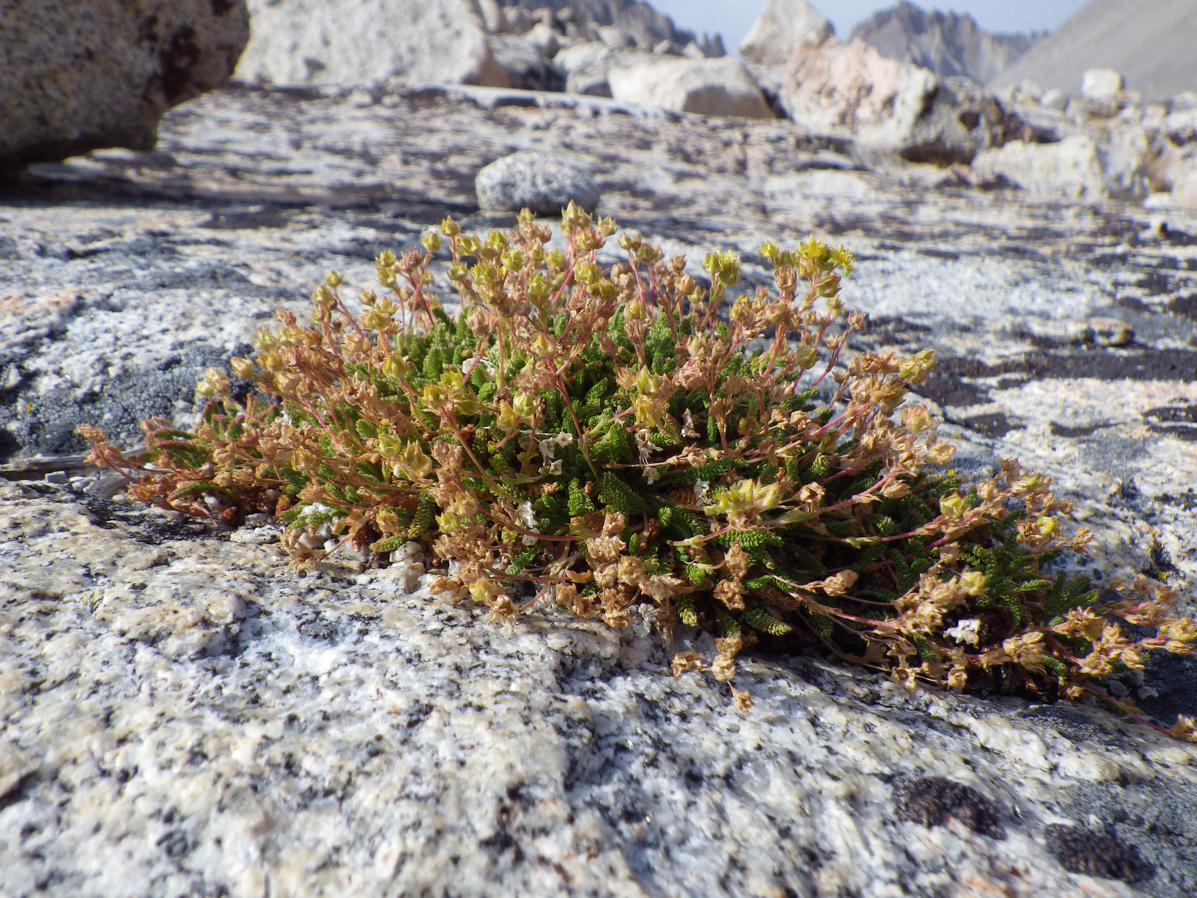 Ivesia lycopodioides — Clubmoss mousetail. On Mt. Whitney, California. Endemic to the Sierra Nevada.